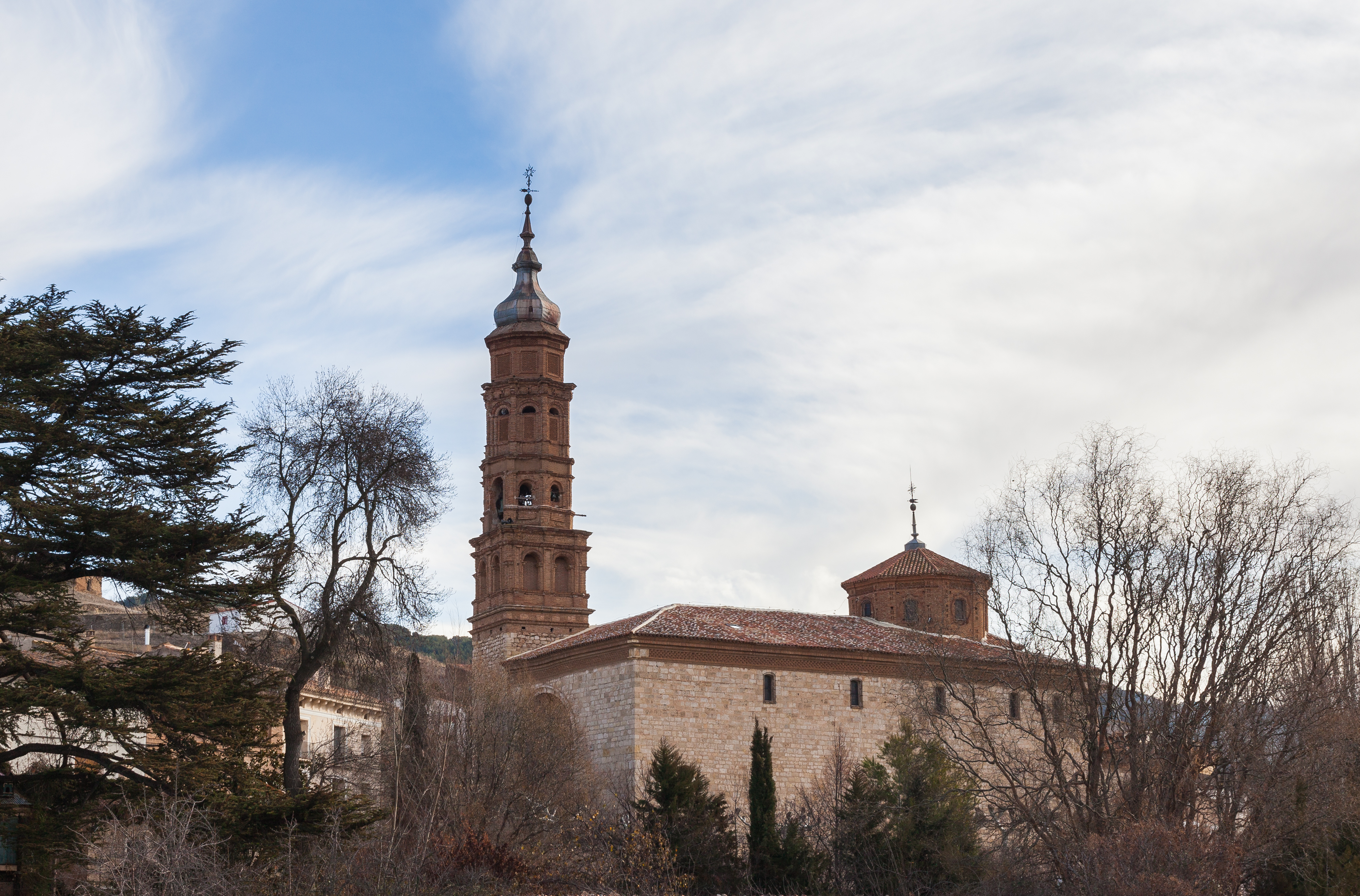 Báguena, Teruel, Spain